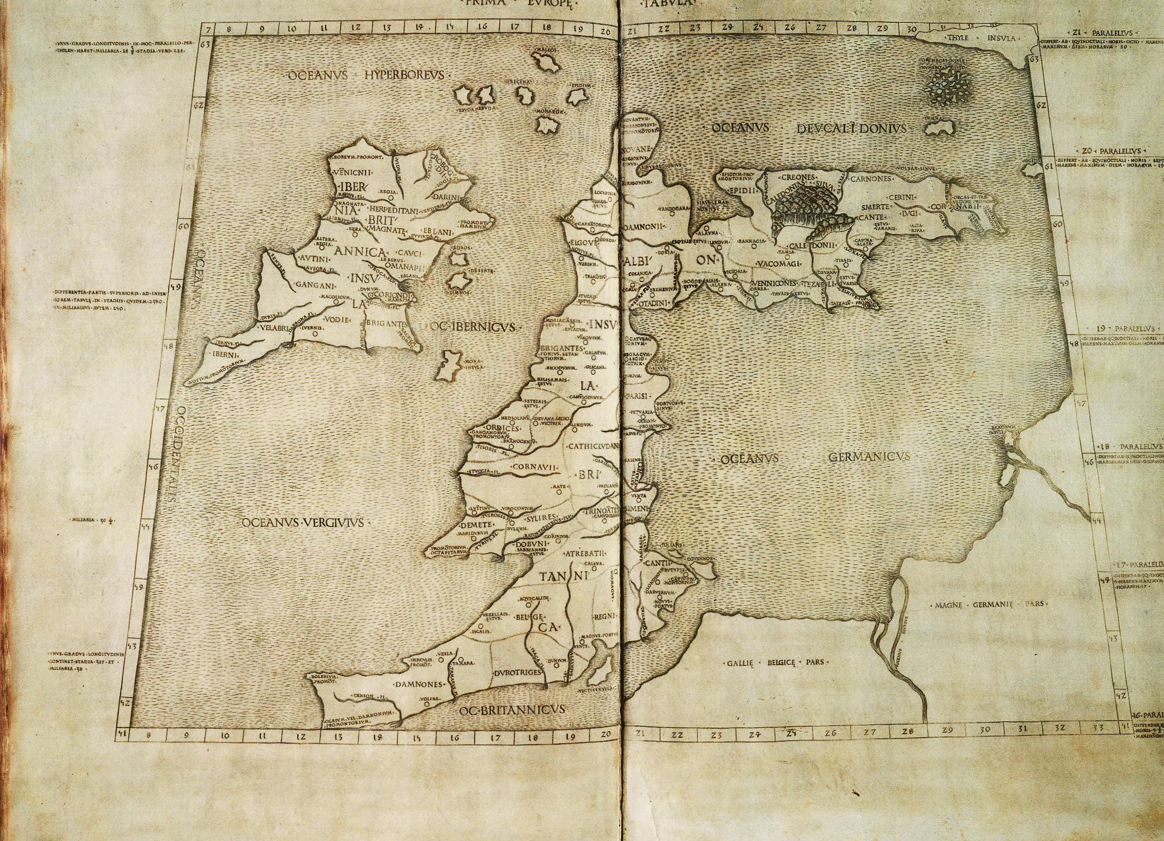 Map of the British Isles and Oceanus Germanicus (the North Sea)